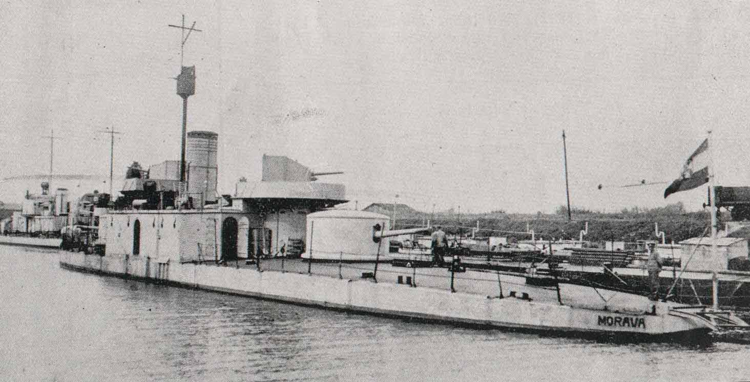 The Yugoslav river monitor Morava at berth